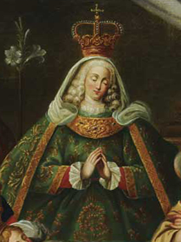 Mother of God (18th-century Portuguese School). Depicted in the painting are the likenesses of Mother Paula of Odivelas (as the Virgin Mary), King John V of Portugal (as Saint Joseph), and Infante Joseph of Portugal (as the Baby Jesus).